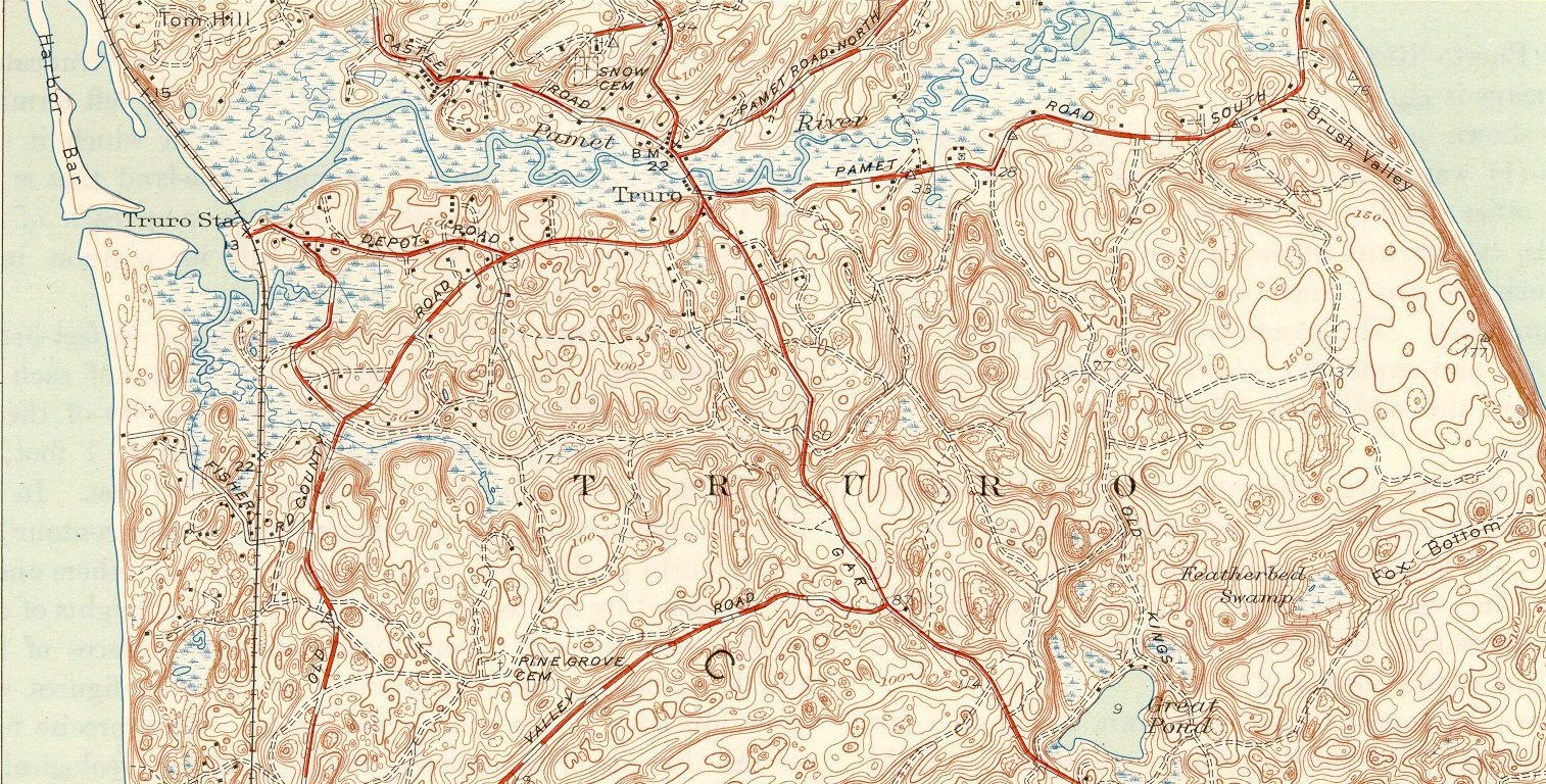 Map of Pamet River, Truro, Massachusetts, on Cape Cod. This image has been cropped to remove extraneous terrain.